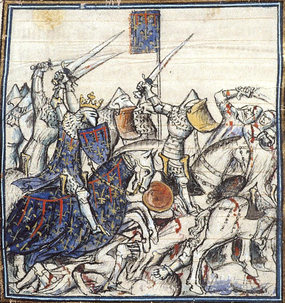 Charles I of Anjou fighting the Saracens of Lucera